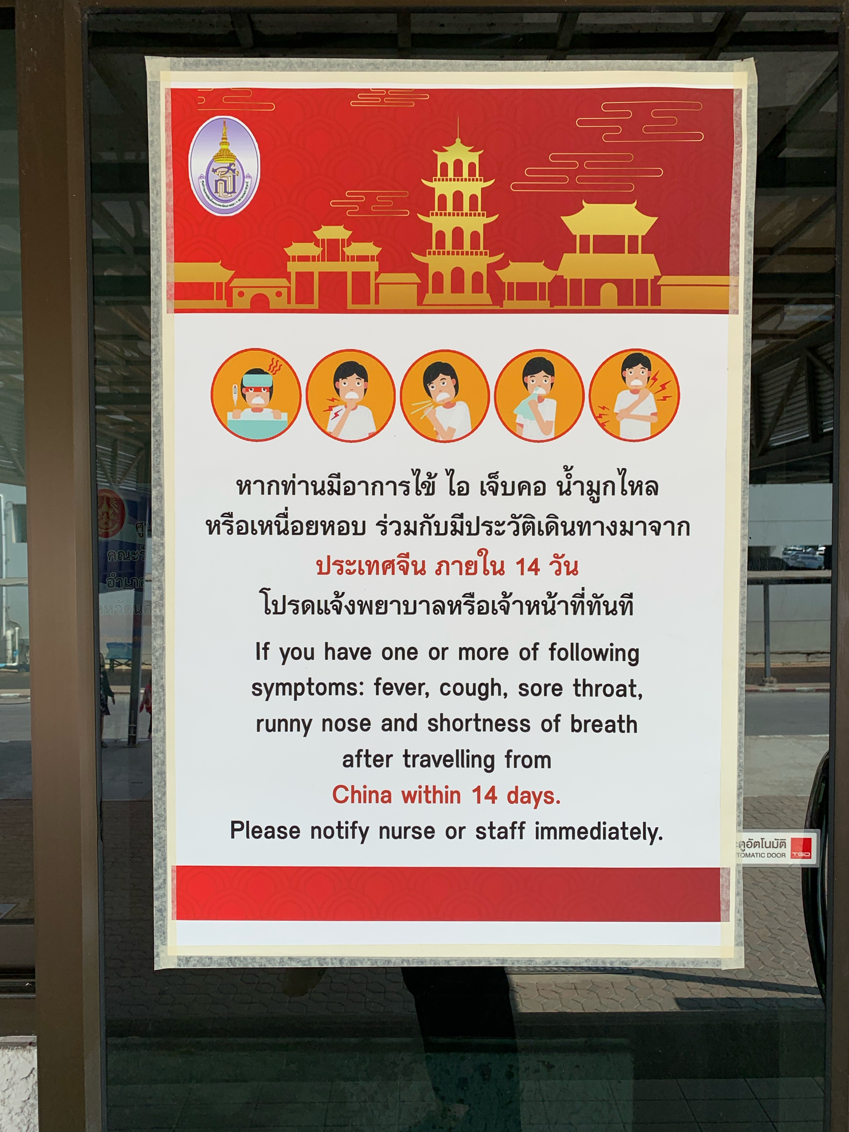 This is one of the earliest examples of the poster concerning the COVID-19 in Thailand. The poster was put the day after first patient was discovered in Thailand. One clear note is that the poster only says if you came from "China", this was before the disease spreaded globally.